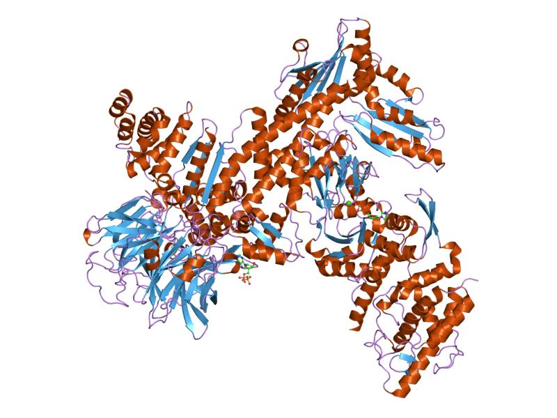 Cartoon representation of the molecular structure of protein registered with 1u2v code.